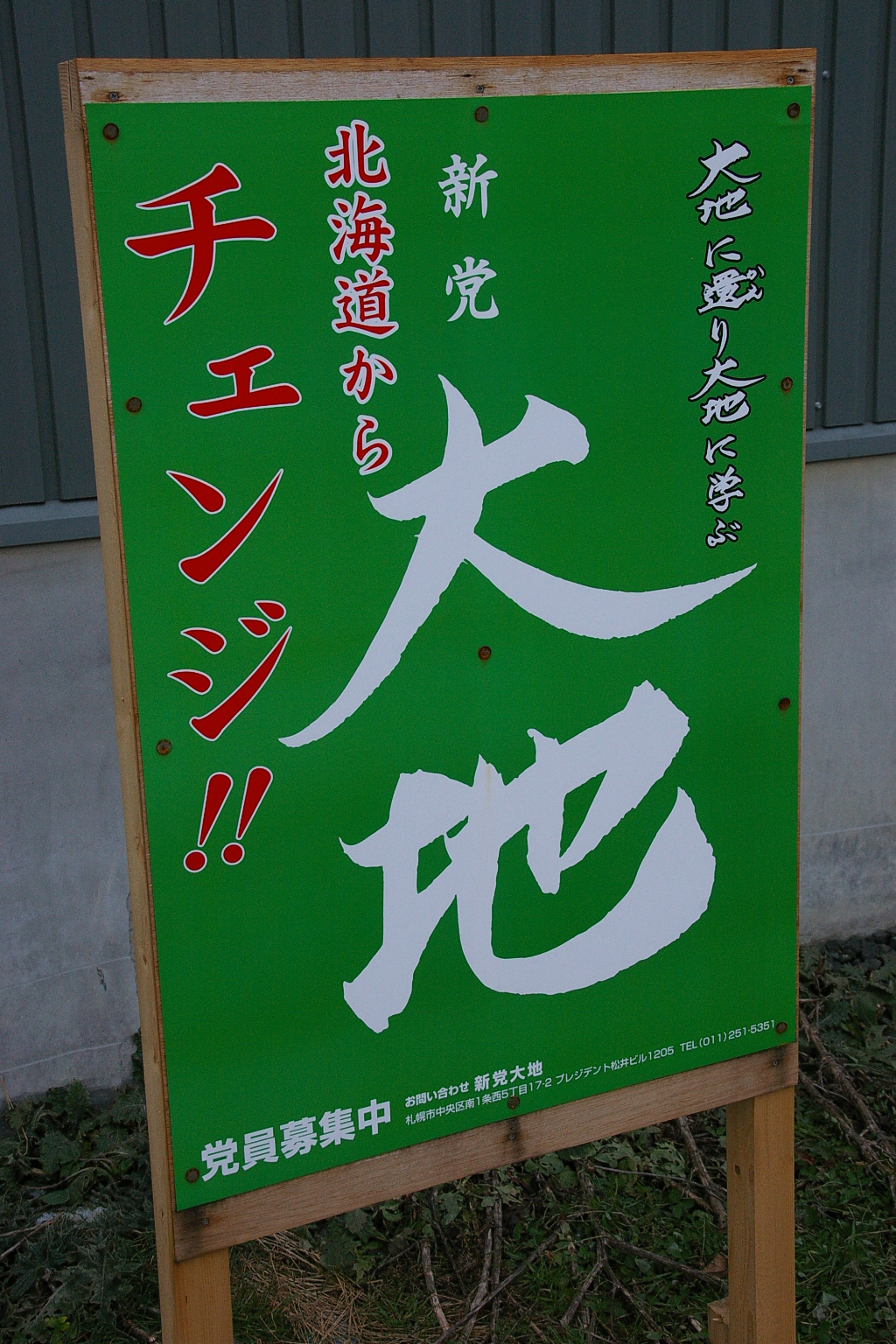 Japan New Party DAICHI Poster